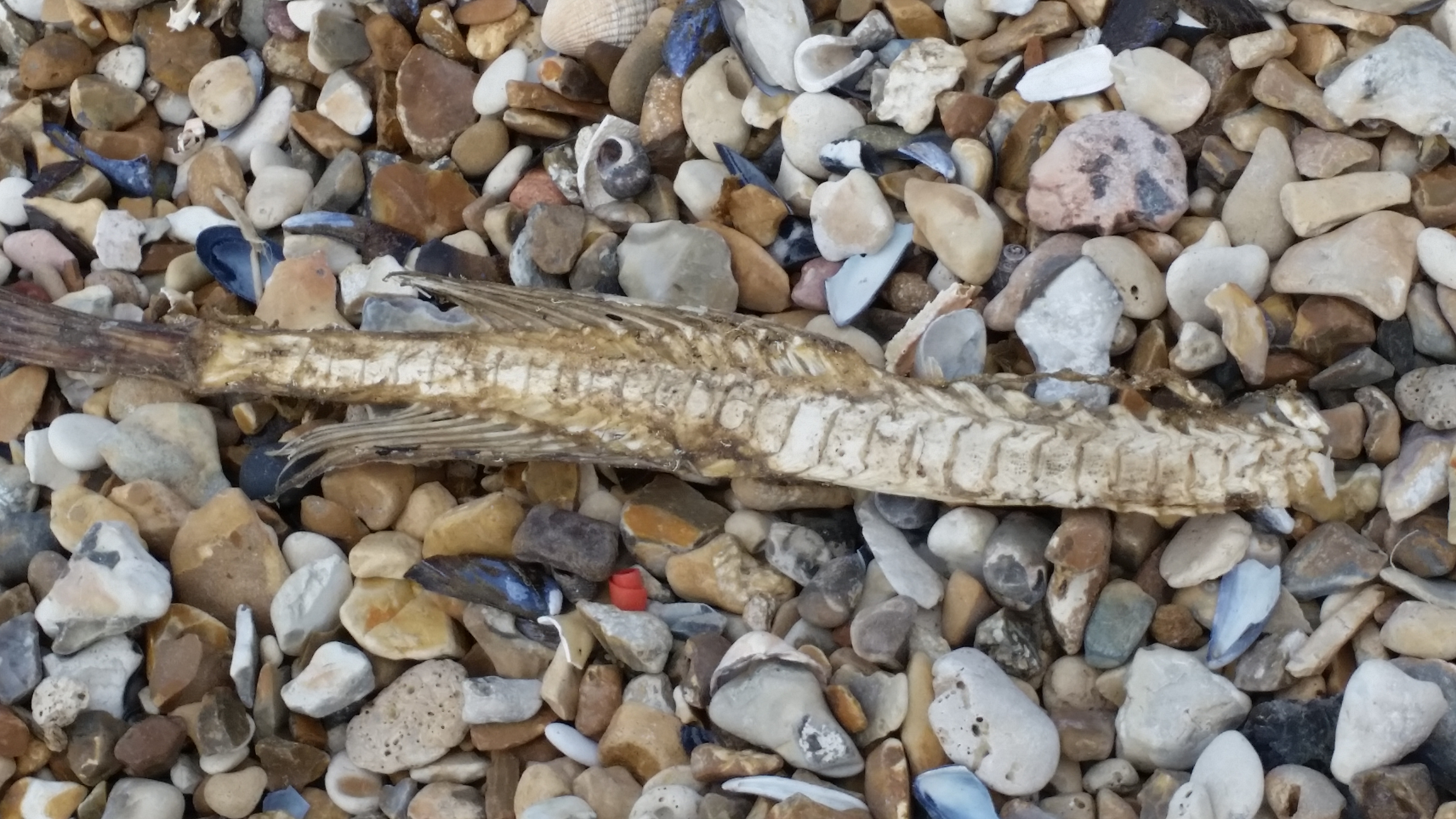 Discarted fish bone in Whitstable, England.